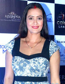 Jasveer Kaur at launch of Telly Calendar 2017